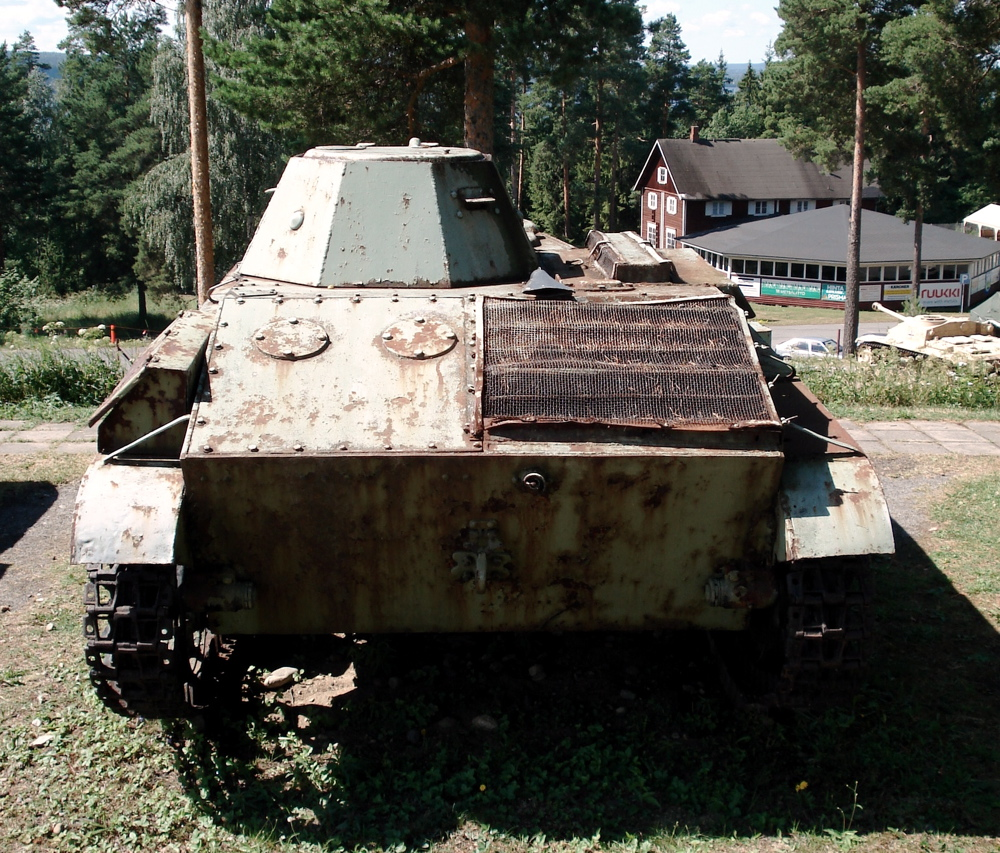 Soviet T-60 light tank, displayed in Finnish Tank Museum (Panssarimuseo) in Parola. This rear view clearly shows the turrent which is offset to one side. Photo taken on July 14, 2006. Source: Photo by me, User:Balcer.